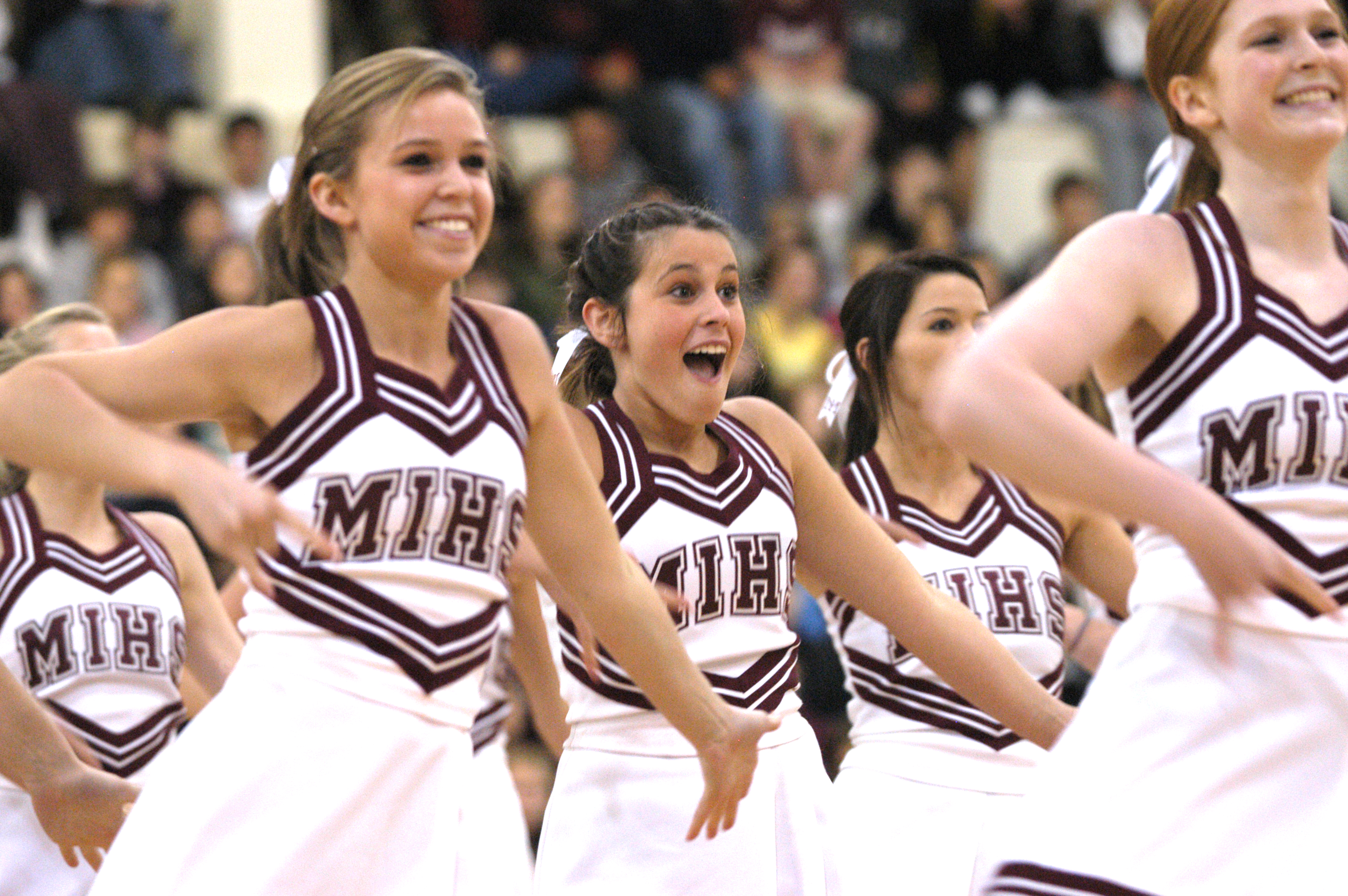 Mercer Island High School cheerleaders at the school's Winter Assembly in 2005.